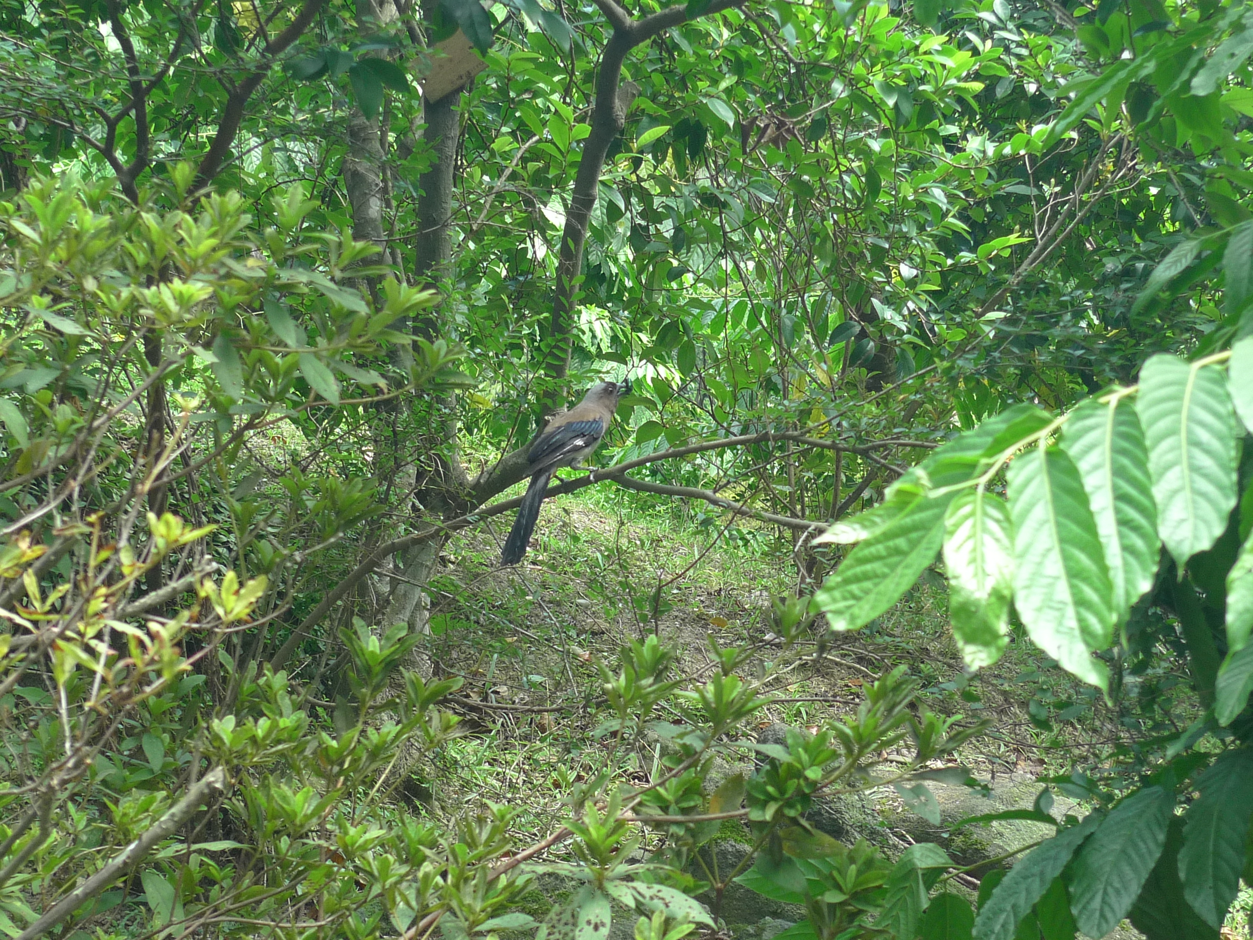 A grey treepie (Dendrocitta formosae) eating an insect in Taipei, Taiwan